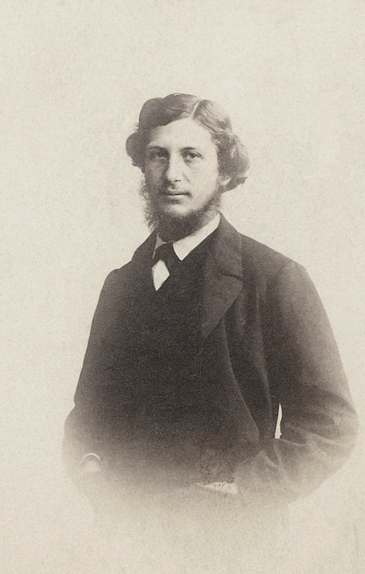 Frédéric Bazille (1841 - 1870), french painter.